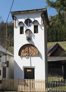 Calendar-clock Kryštofovo Údolí - Czech republic